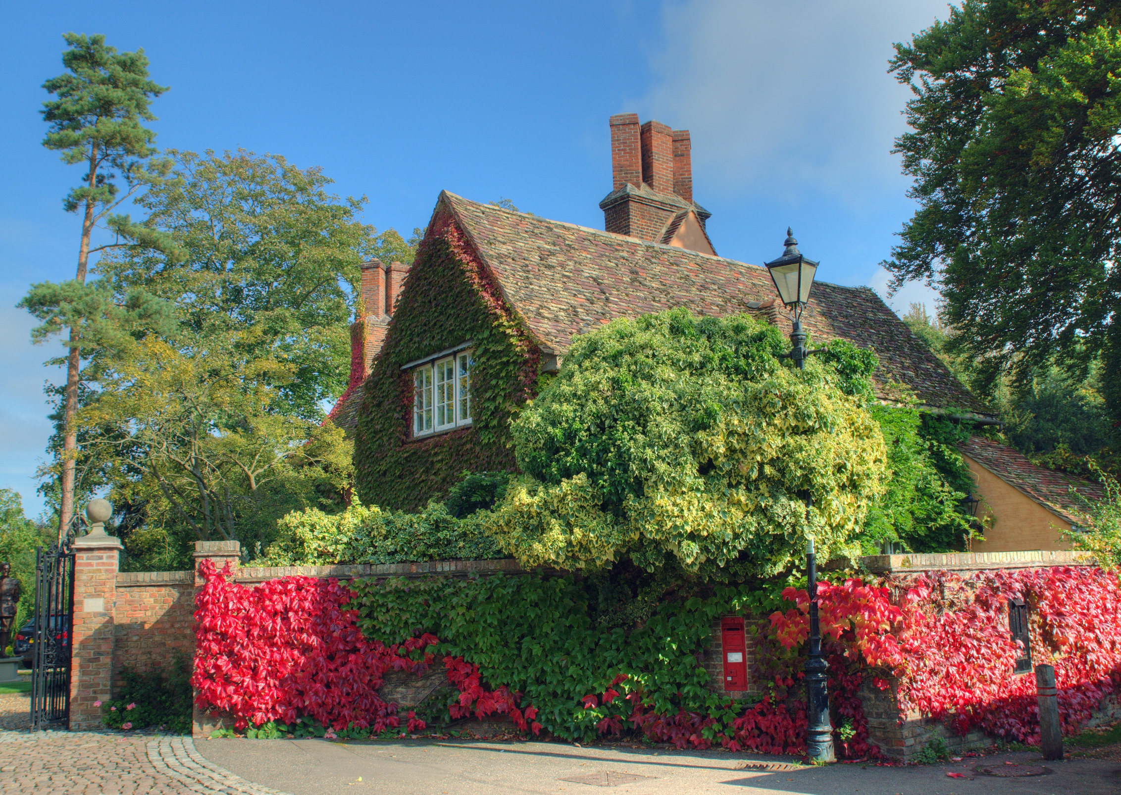 The Old Vicarage in the Cambridgeshire village of Grantchester is a house associated with the poet Rupert Brooke, who lived nearby and in 1912 immortalised it in an eponymous poem. Wikidata has entry Q26420674 with data related to this item.